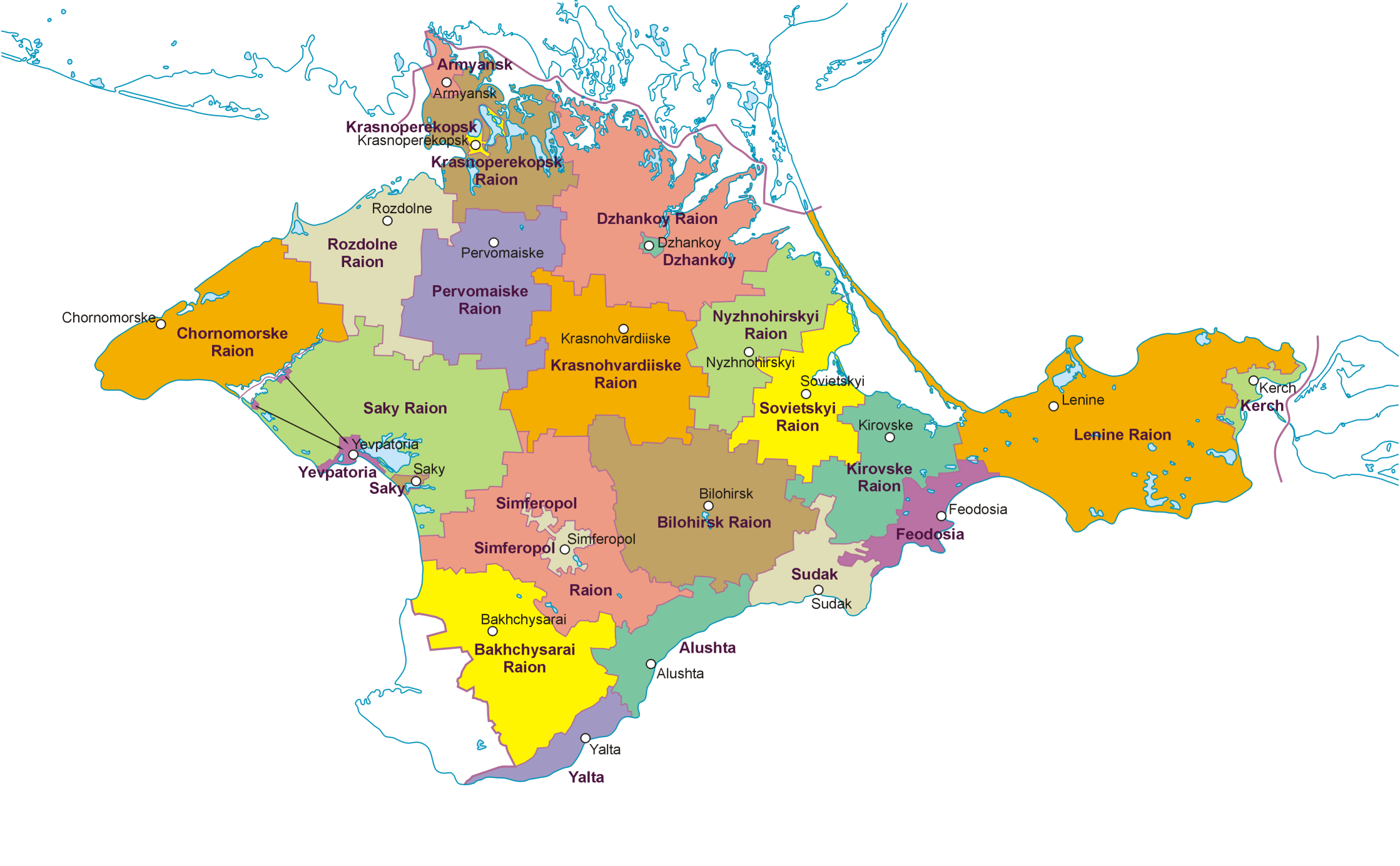 Administrative map of Crimea – Autonomous Republic of Crimea & Republic of Crimea. English version